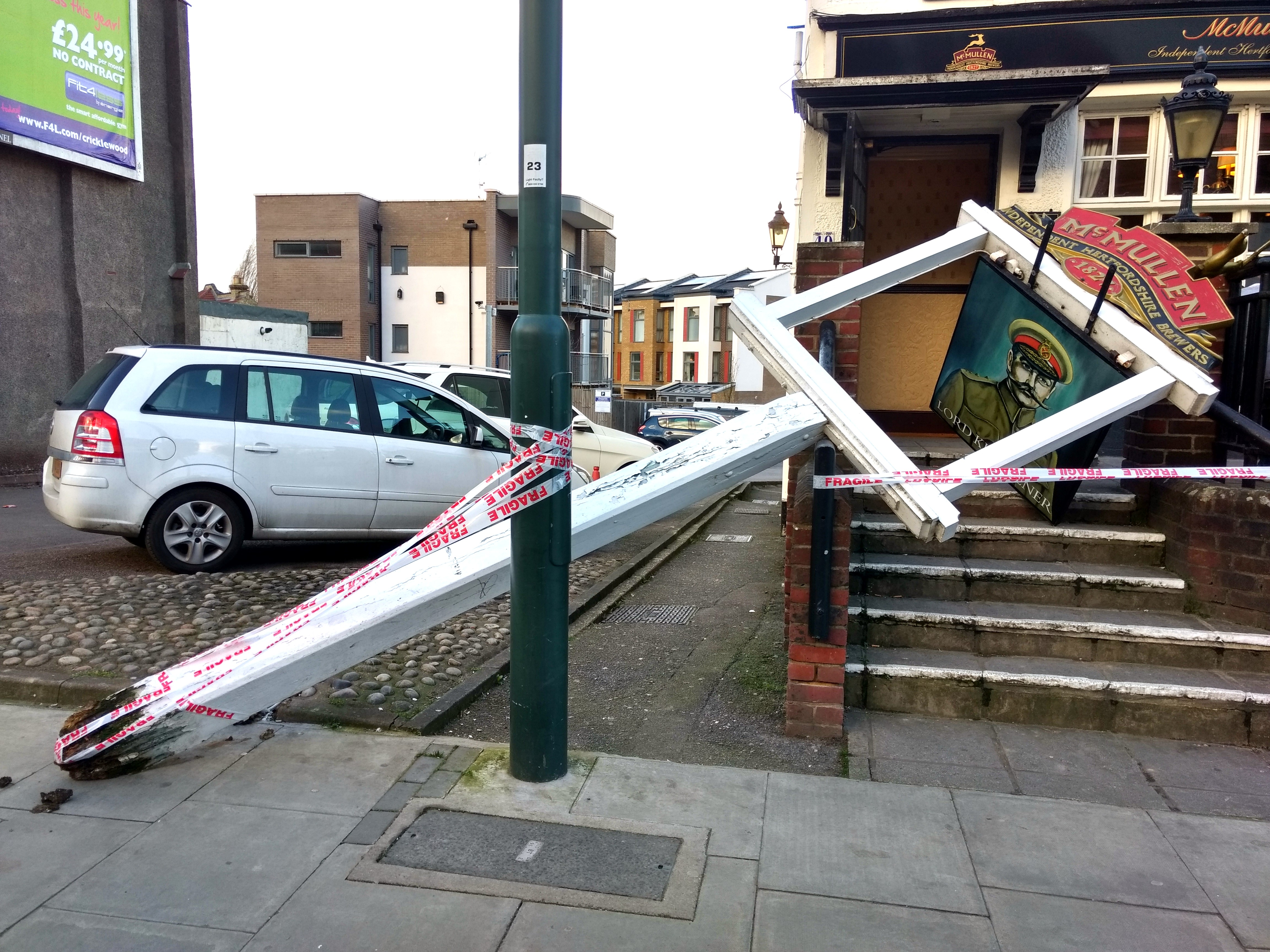 Storm Doris damage to the Lord Kitchener, New Barnet